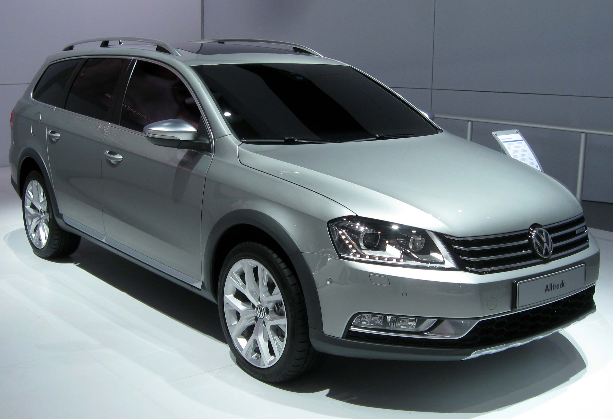 Volkswagen Passat Alltrack concept photographed at the 2012 New York International Auto Show.